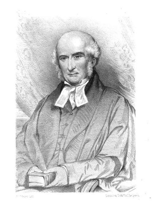 Portrait of Robert Francis Walker (1789–1854), English cleric and author.